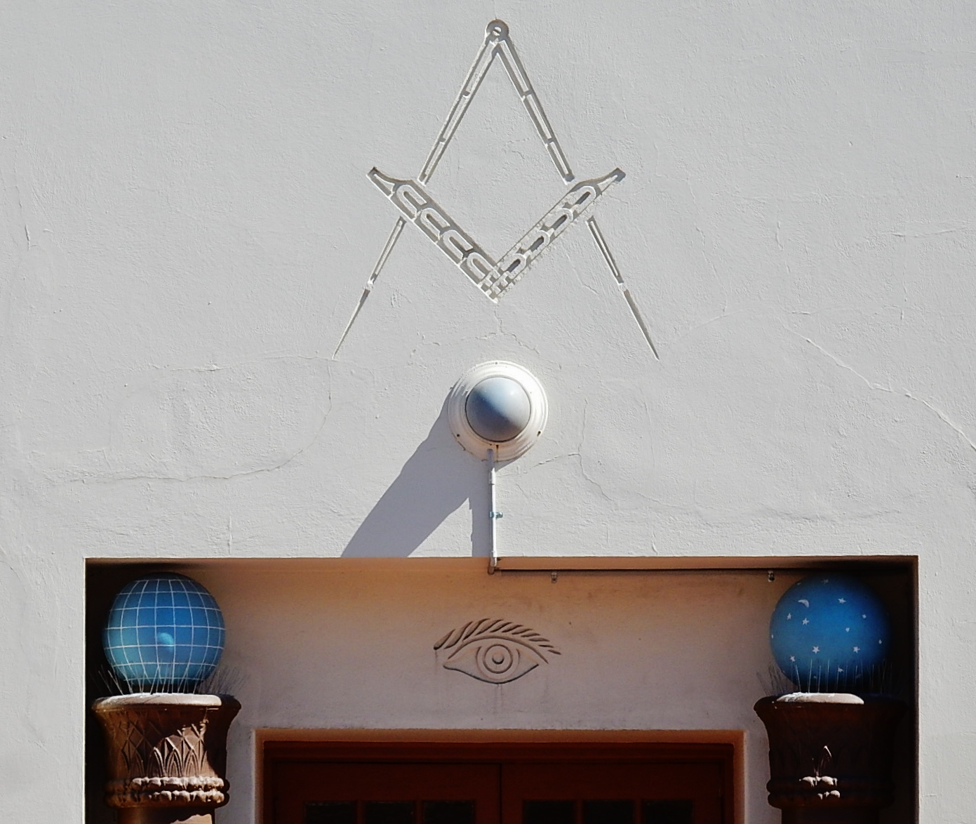 The All Seeing Eye Bids You Welcome